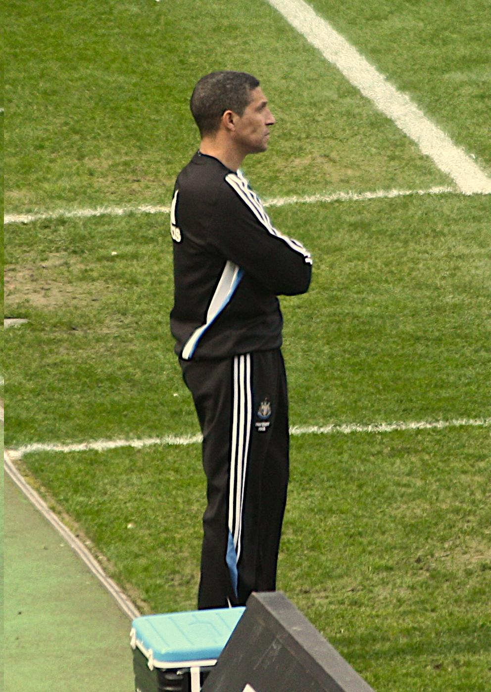 Chris Hughton managing Newcastle in the dugout at St James' Park.